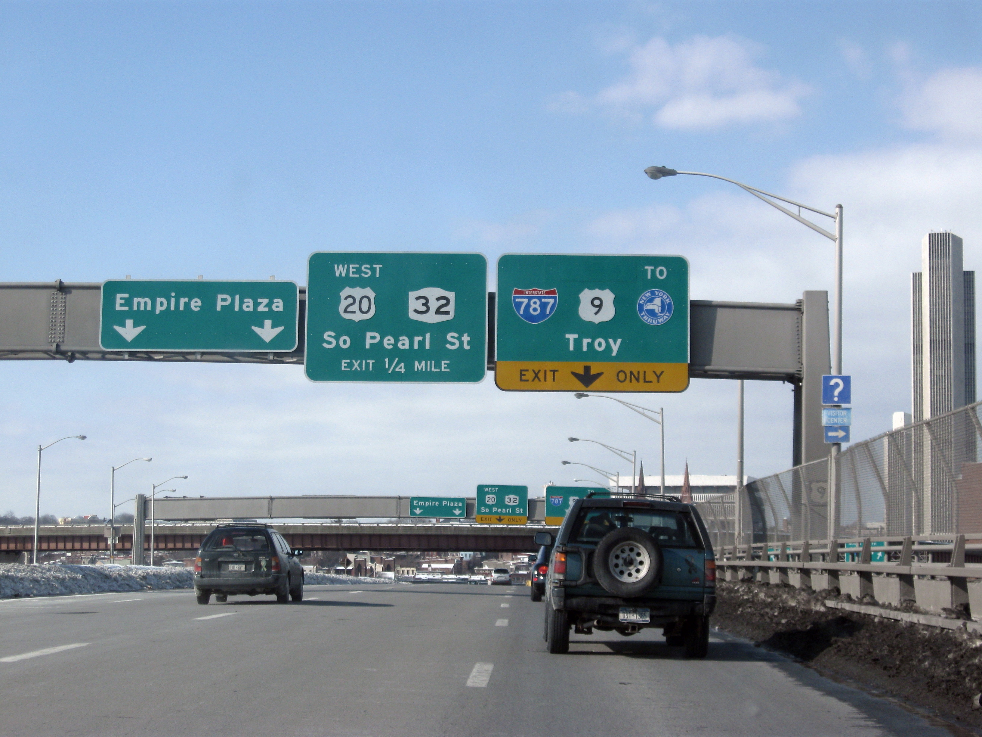 US 9-20 as they both cross the Dunn Memorial Bridge between Rensselaer and Albany, New York.